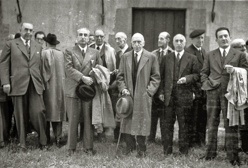 Homage to historian and philologist Julio de UrquijoEuskara: Julio Urkixo historialari eta filologoari egindako omenaldia